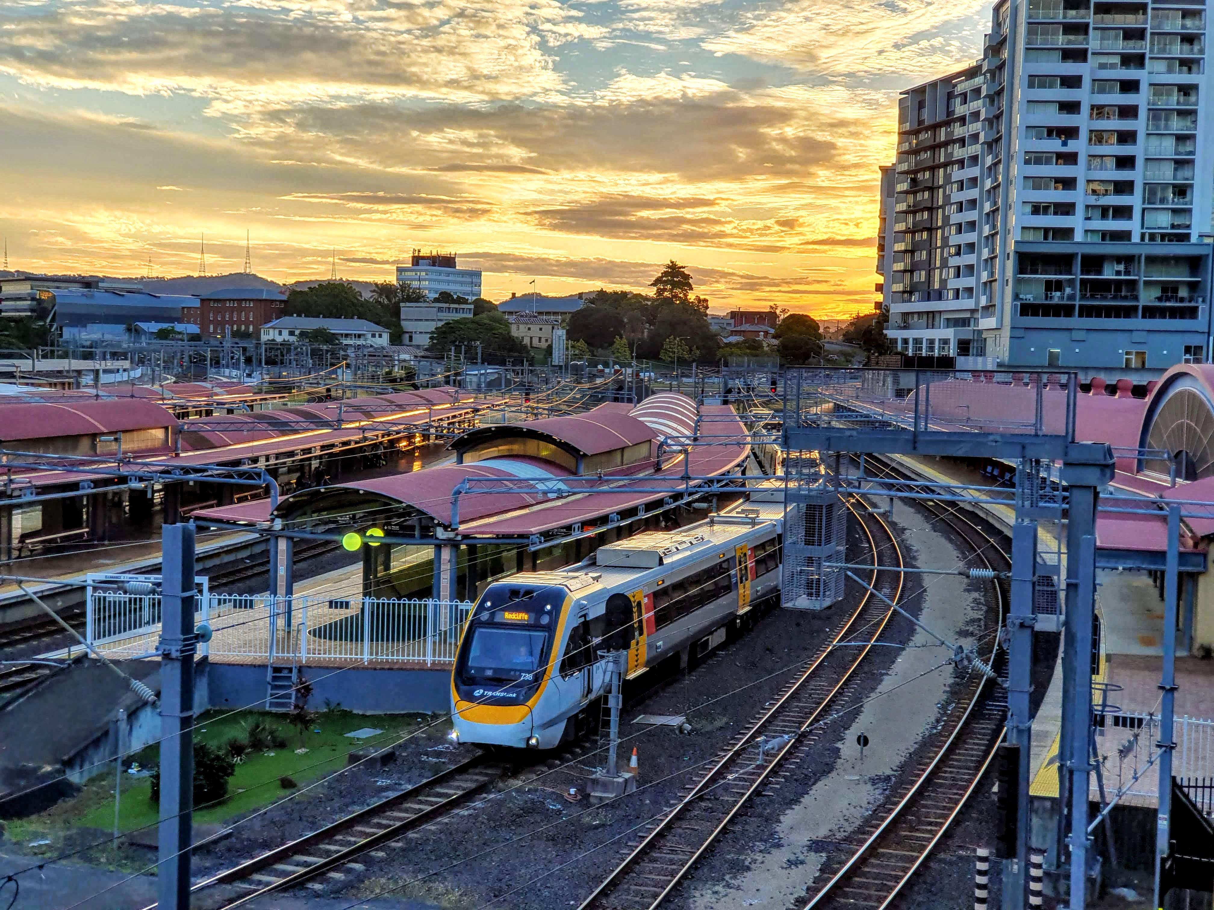 Sunset view looking down on Roma Street Station from Roma Street Parkland carriageway.